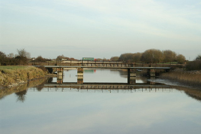 Railway Bridge over the Huntspill River